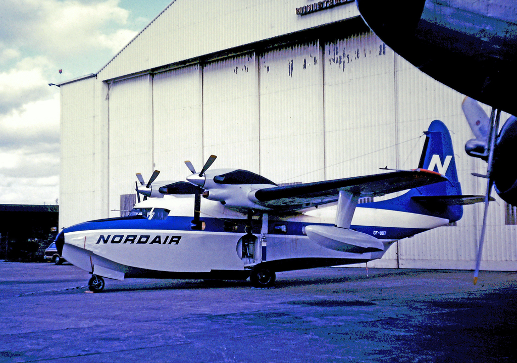 Grumman G-73T Turbo Mallard CF-UOT of Nordair at Montreal Dorval in 1973